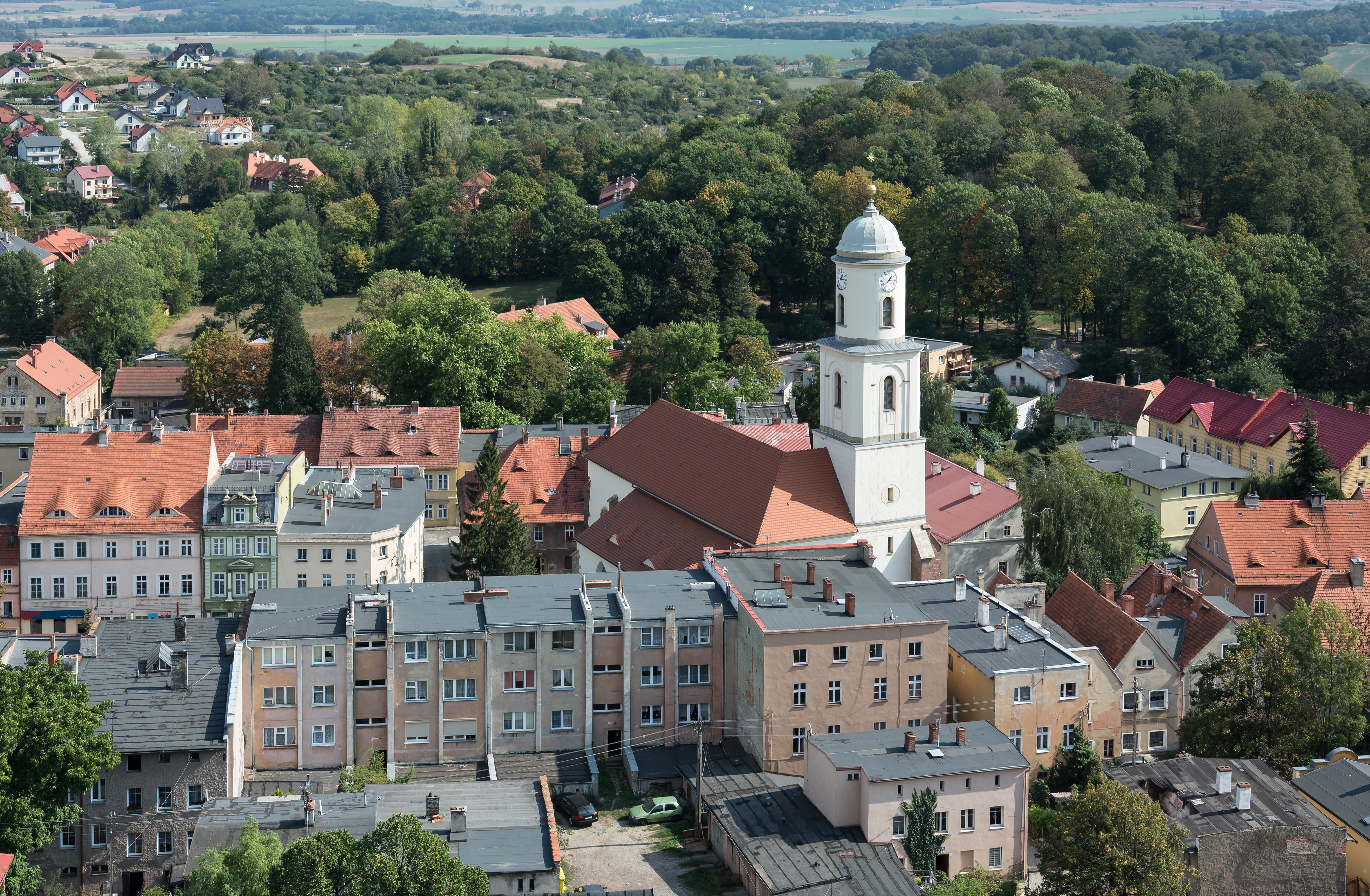 Center of Bolków Wikidata has entry Q30041960 with data related to this item.